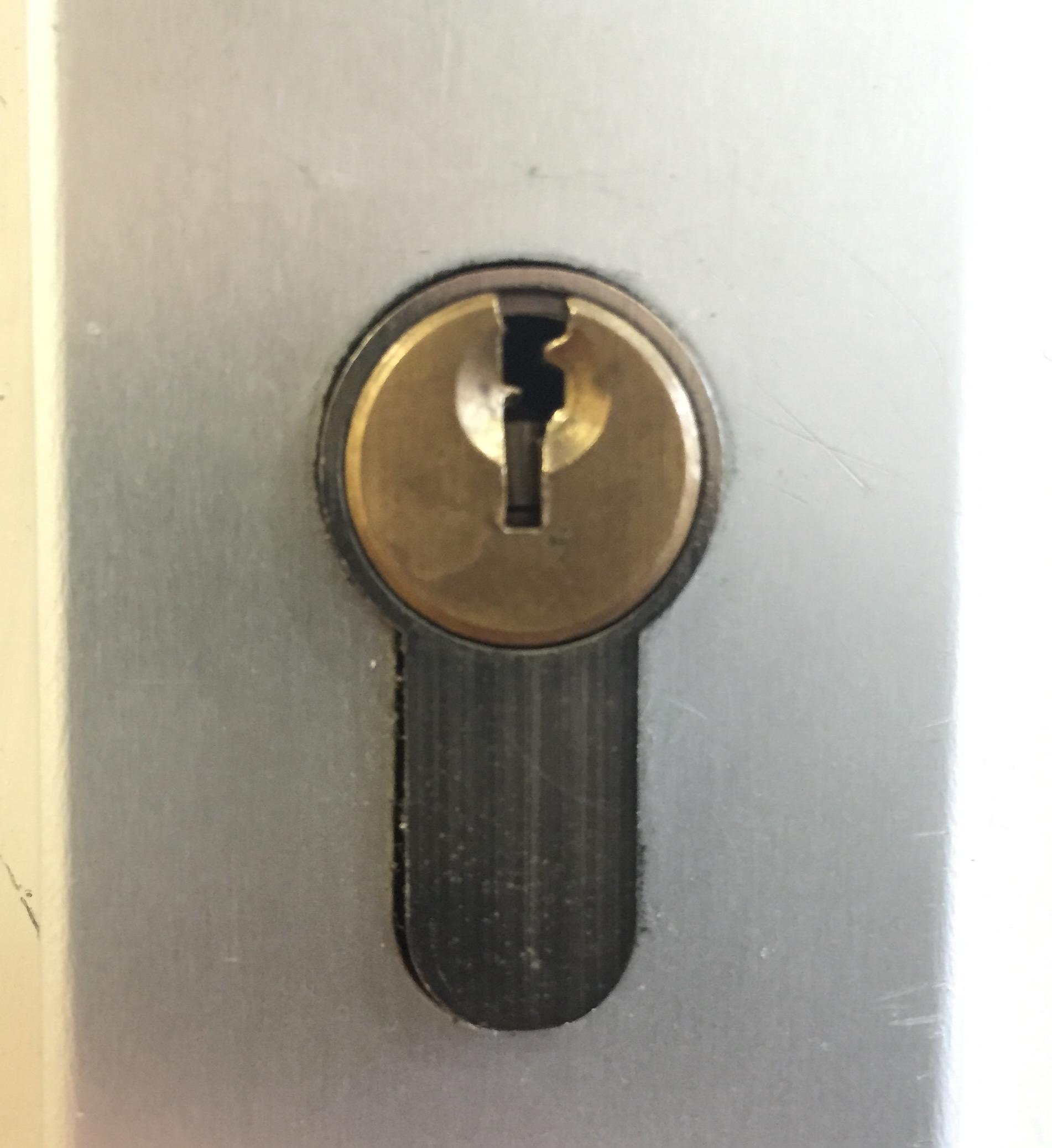 A Common type of pin tumbler lock, usually found in Europe.